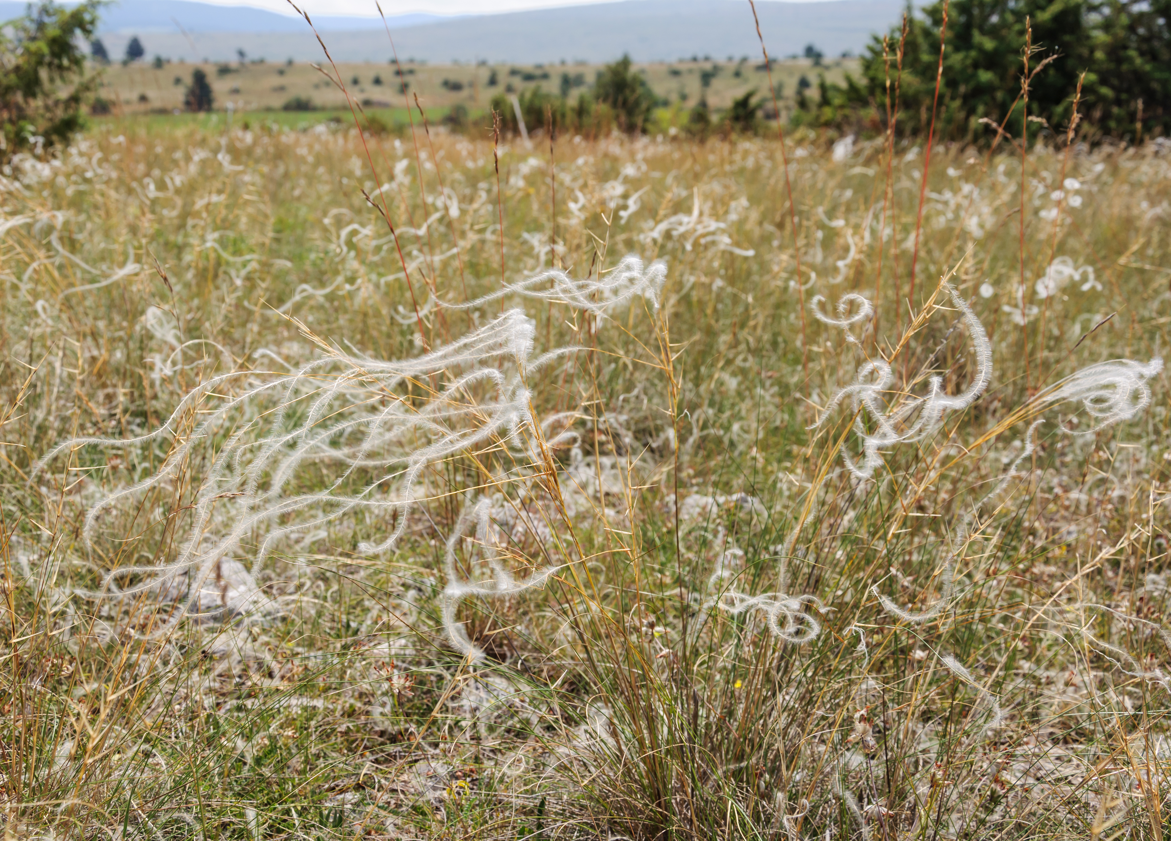 Feather grass (Stipa pennata) in natural habitat on Causse Méjean (Lozère, France)